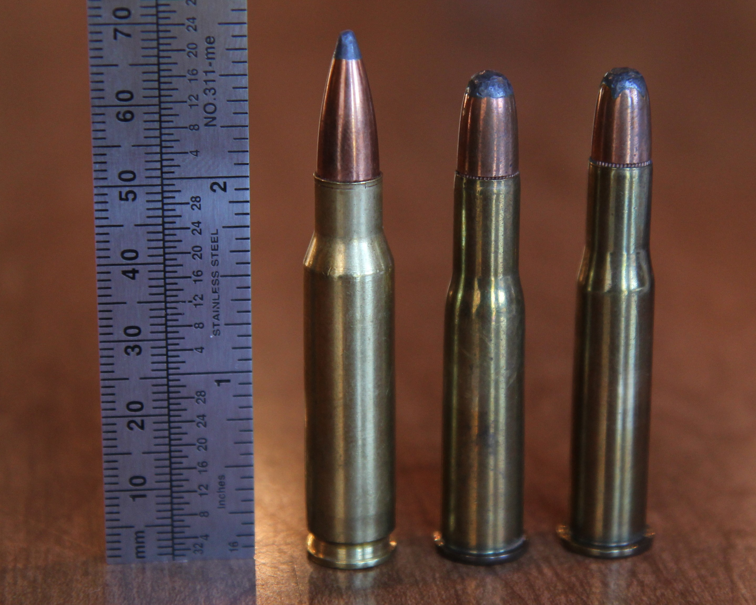 .303 Savage (center) displayed with a metric/imperial ruler in addition to .308 win (left) and .30/30 WCF (right).